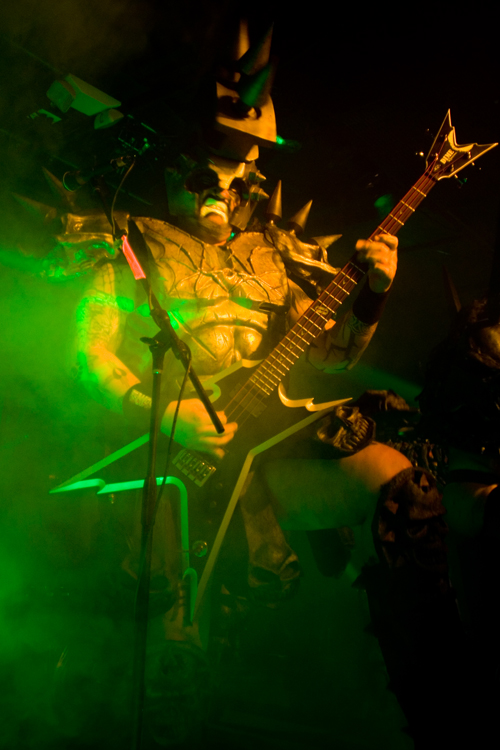 Beefcake the Mighty, bassist of the heavy metal band GWAR